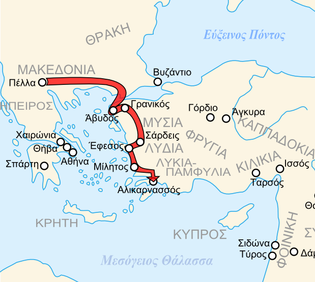 Map of a part of Alexander's route in Asia.